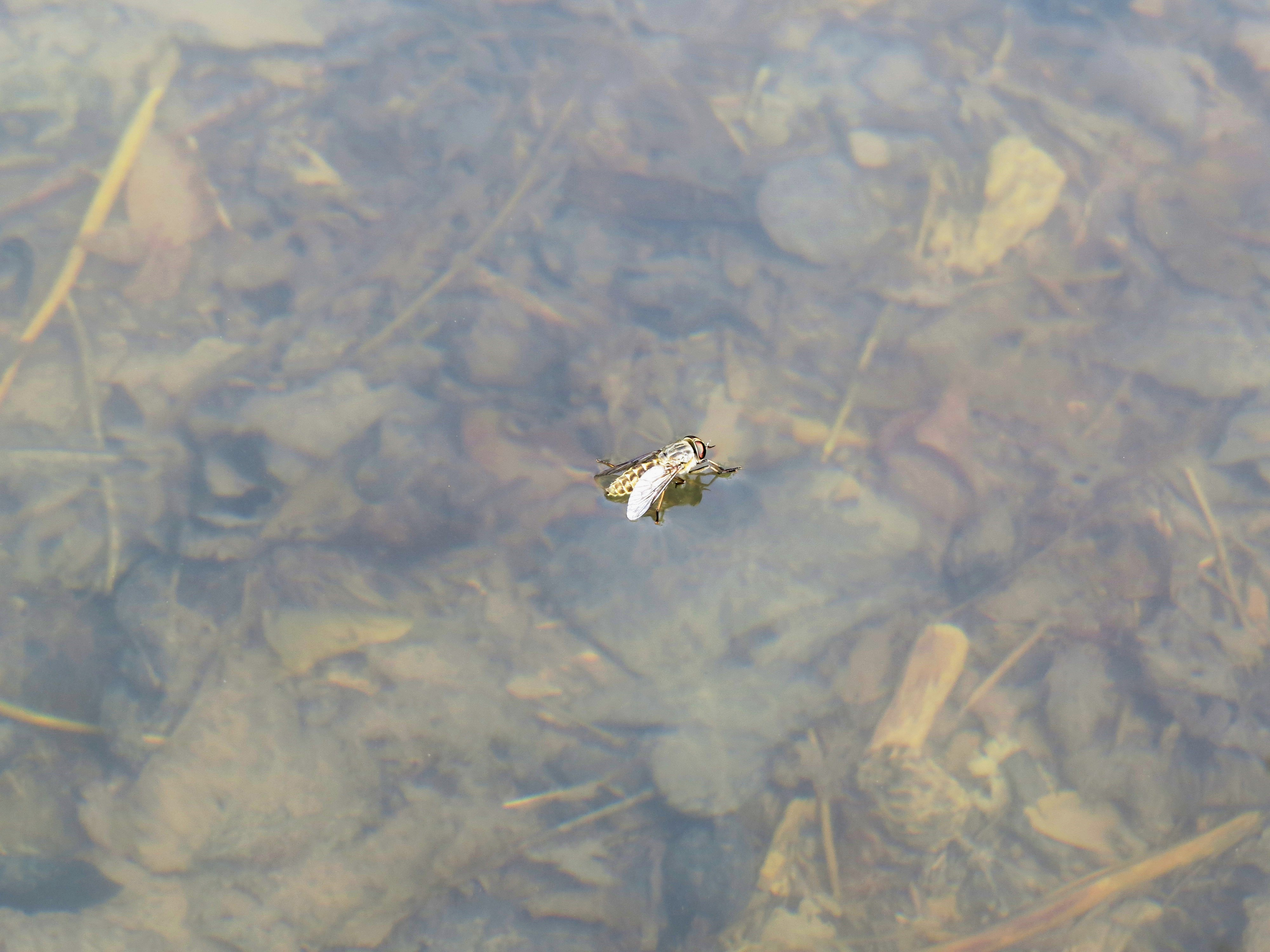 Tabanus sudeticus (dark giant horsefly) at Bichlhäusl, Tiefgrabenrotte, Frankenfels, Austria